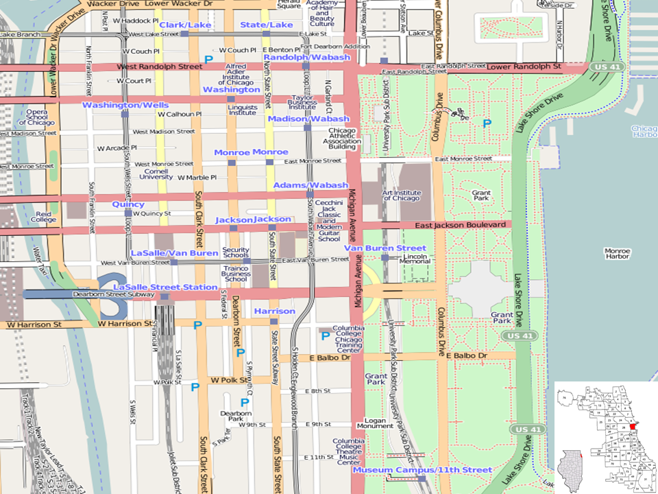 This map of Chicago loop with window locator was created from OpenStreetMap project data, collected by the community. This map may be incomplete, and may contain errors. Don't rely solely on it for navigation. Border coordinates41.88747-87.63909←↕→-87.6115441.86782